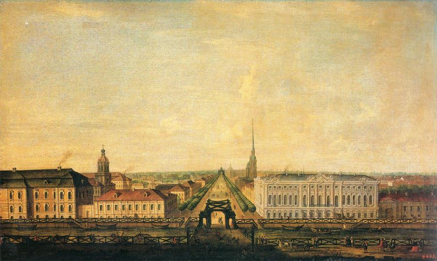 Saint Petersburg (Russia), Nevsky Prospekt.